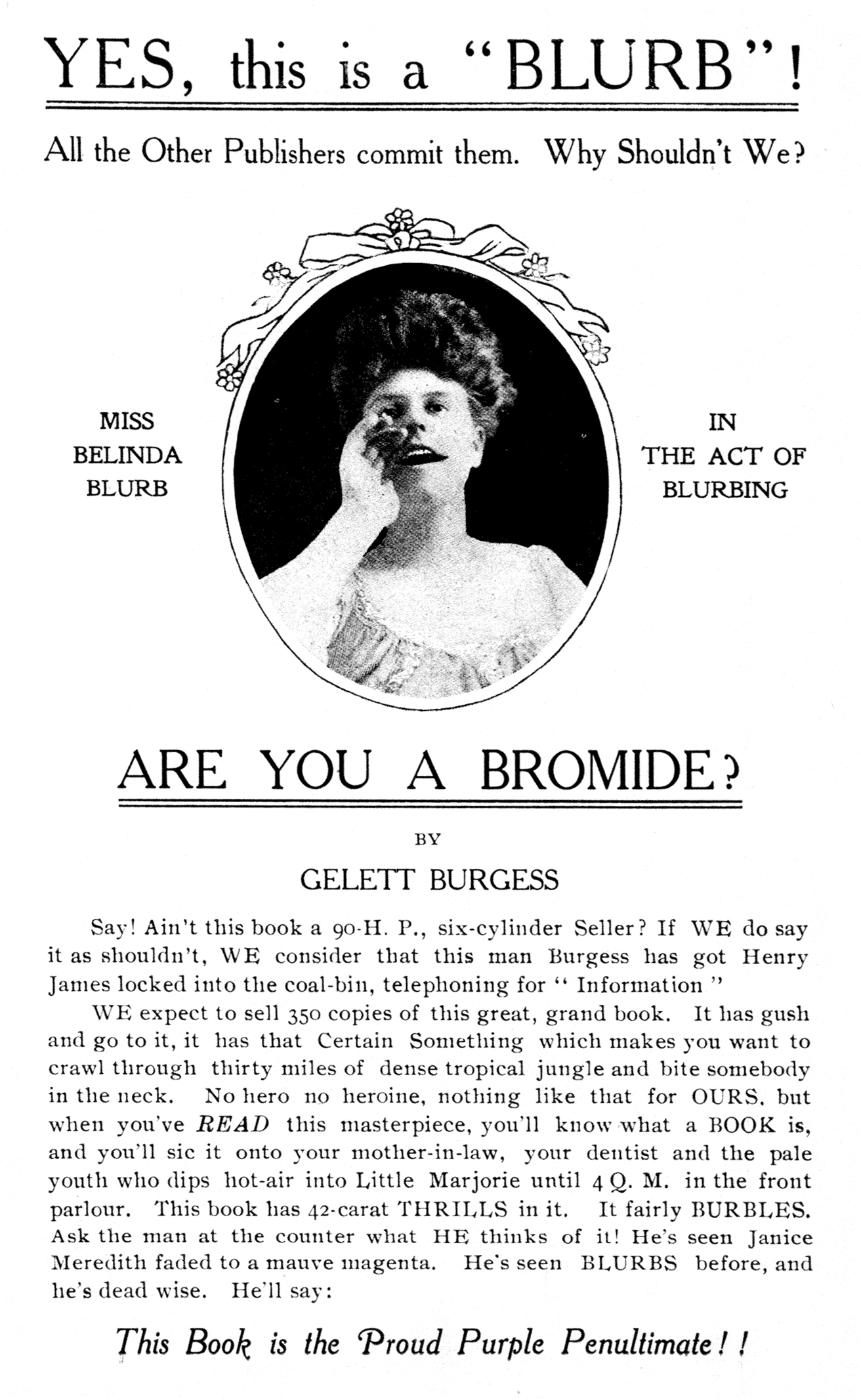 The word "blurb" was coined by Burgess, in attributing the cover copy of his book, Are You a Bromide?, to a Miss Belinda Blurb.